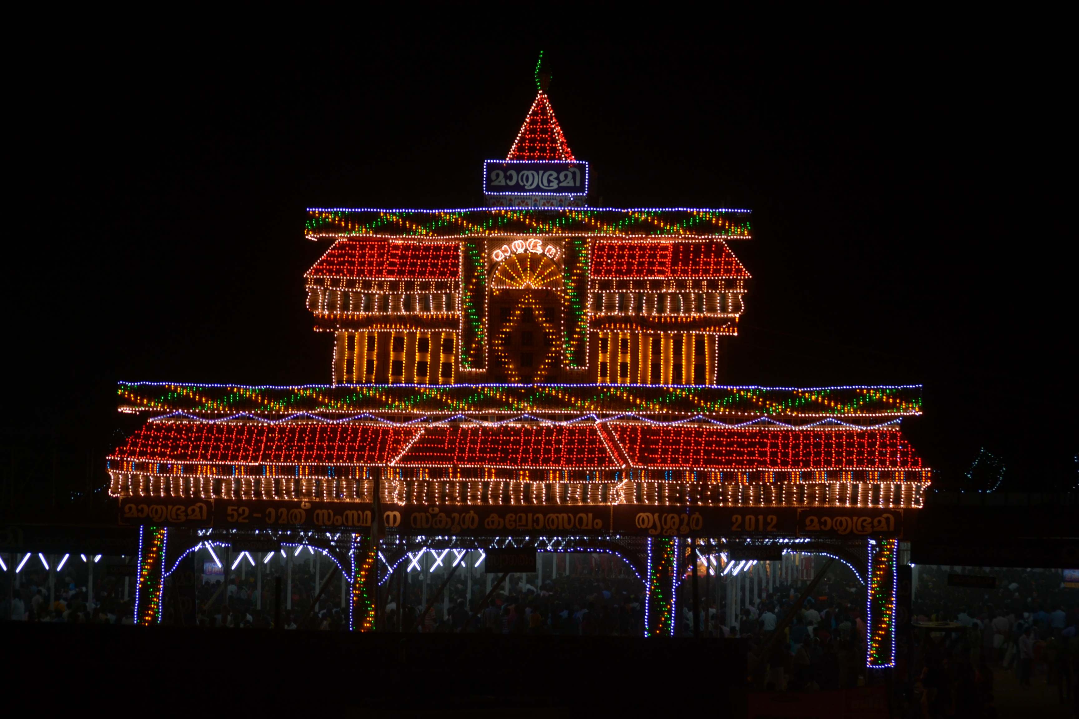 Kerala School Kalolsavam 2012